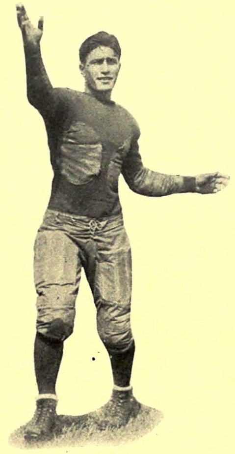 Photograph of Benny Friedman This work is in the public domain because it was published in the United States between 1925 and 1963 and although there may or may not have been a copyright notice, the copyright was not renewed. Unless its author has been dead for the required period, it is copyrighted in the countries or areas that do not apply the rule of the shorter term for US works, such as Canada (50 pma), Mainland China (50 pma, not Hong Kong or Macao), Germany (70 pma), Mexico (100 pma), Switzerland (70 pma), and other countries with individual treaties. See Commons:Hirtle chart for further explanation. This work is in the public domain in the United States because it was published in the United States between 1925 and 1977, inclusive, without a copyright notice. For further explanation, see Commons:Hirtle chart as well as a detailed definition of "publication" for public art. Note that it may still be copyrighted in jurisdictions that do not apply the rule of the shorter term for US works (depending on the date of the author's death), such as Canada (50 p.m.a.), Mainland China (50 p.m.a., not Hong Kong or Macao), Germany (70 p.m.a.), Mexico (100 p.m.a.), Switzerland (70 p.m.a.), and other countries with individual treaties.